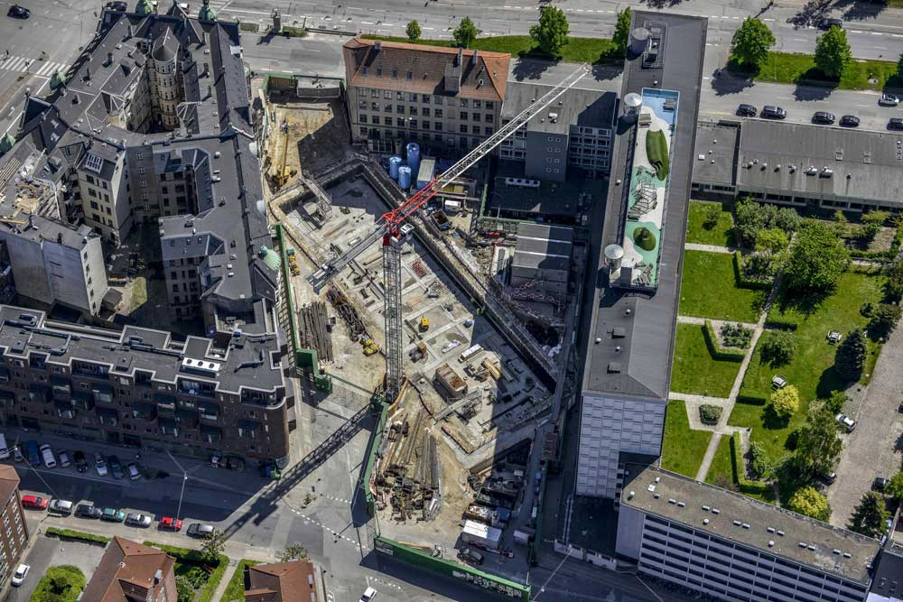 Air photo of the City Circle Line being built, part of the Copenhagen Metro. I got the following permission to use these images from kjeld madsen on 2014-10-07: Dragør Luftfoto ApS frigiver hermed billederne i galleriet under licensen Creative Commons Attribution ShareAlike 3.0 license.